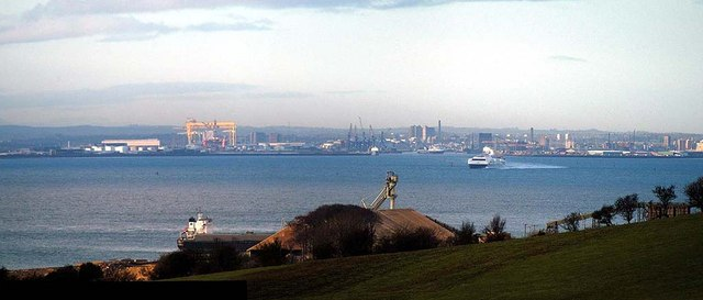 A View of the City of Belfast from Quay Lane A view of Belfast Lough and the City of Belfast, approx 12 miles distance from Quay Lane Whitehead. The image was made in 5 parts at 07:55pm 02-03-2005, from Quay Lane. A short description; Unidentified vessel, discharging at the Salt Mines, Kilroot. The Stena Voyager is slowly making its way up Belfast Lough with the 07:35 Belfast to Stranraer sailing. Liverpool Viking, has arrived from Liverpool (overnight sailing) and is swinging round before berthing at the Victoria Terminal No.2, Varbola? a non passenger ferry, is berthed at the Victoria Terminal No.1., to the left, a unidentified Oil Tanker discharging Oil.